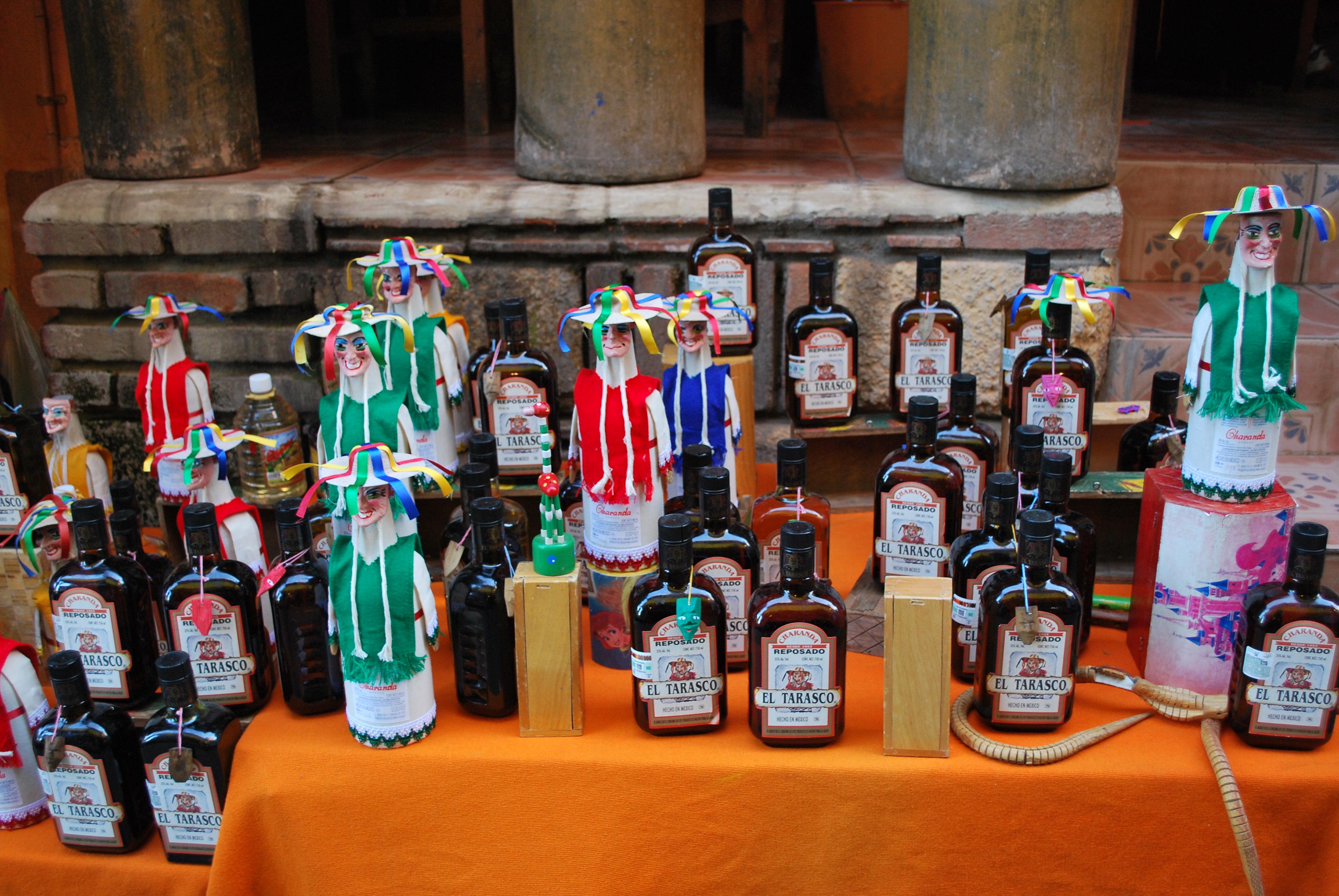 A distilled spirit called "charanda" for sale on Janitzio Island in Lake Patzcuaro, Michoacan The taste is between whiskey and tequila.